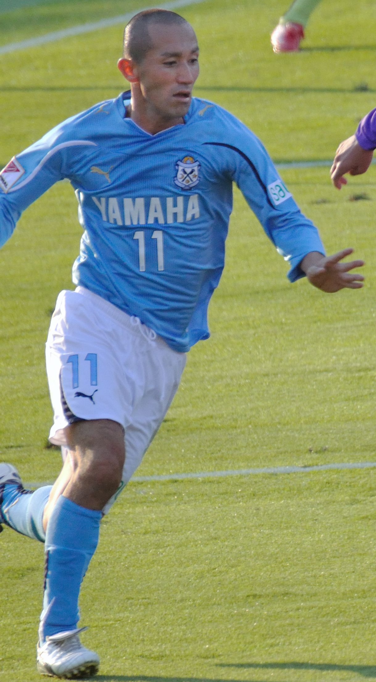 Norihiro Nishi cropped from DSC_7717